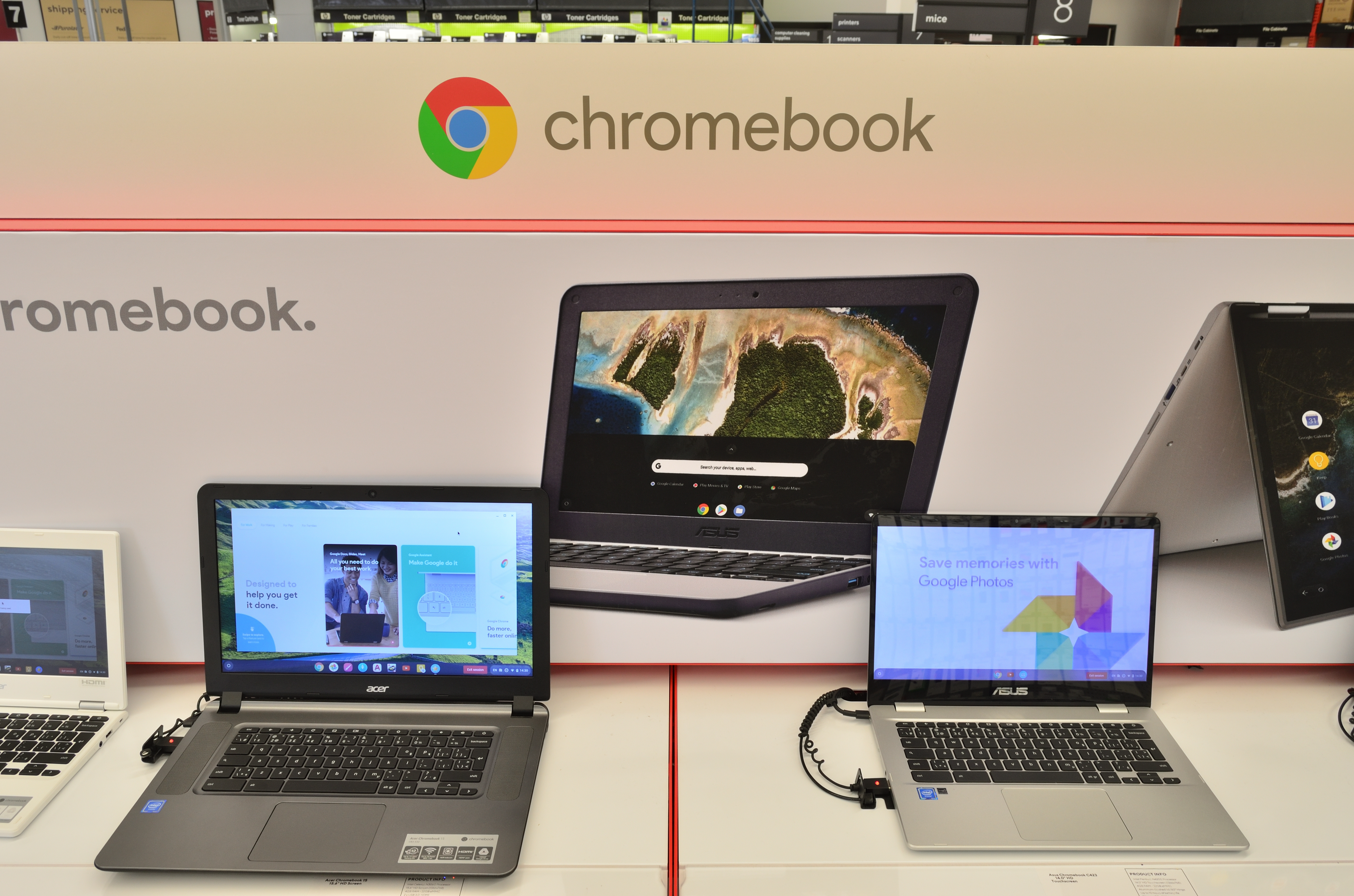 Chromebooks at a Staples store